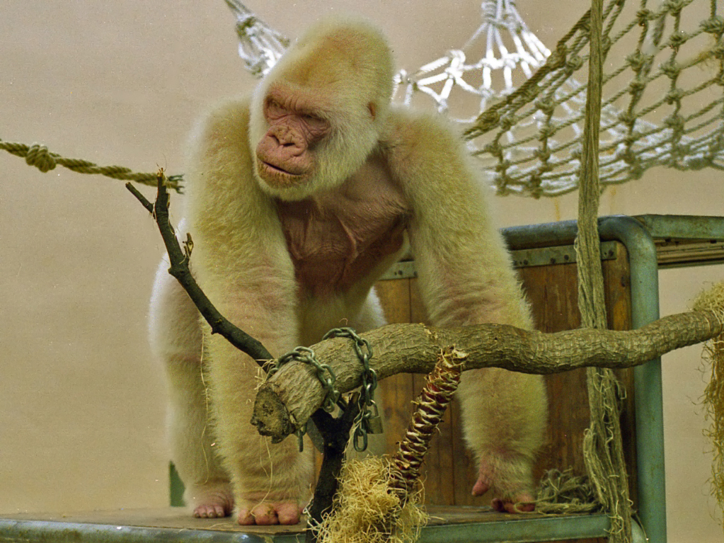 Snowflake - Barcelona Zoo White Gorilla